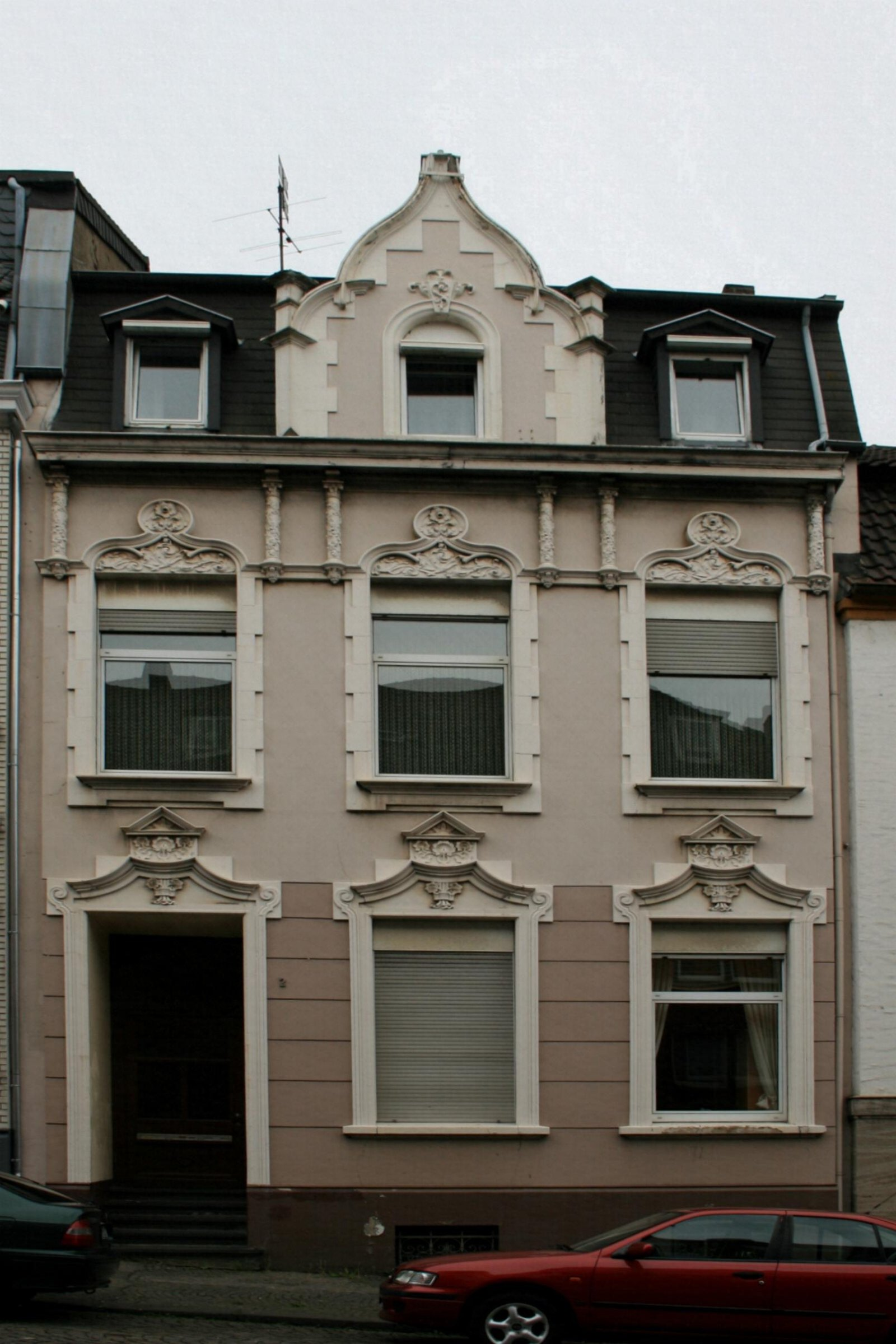 Cultural heritage monument No. B 051 in Mönchengladbach